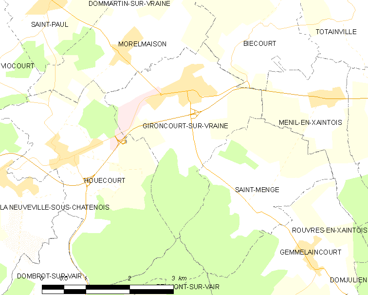 Map of French municipality Gironcourt-sur-Vraine